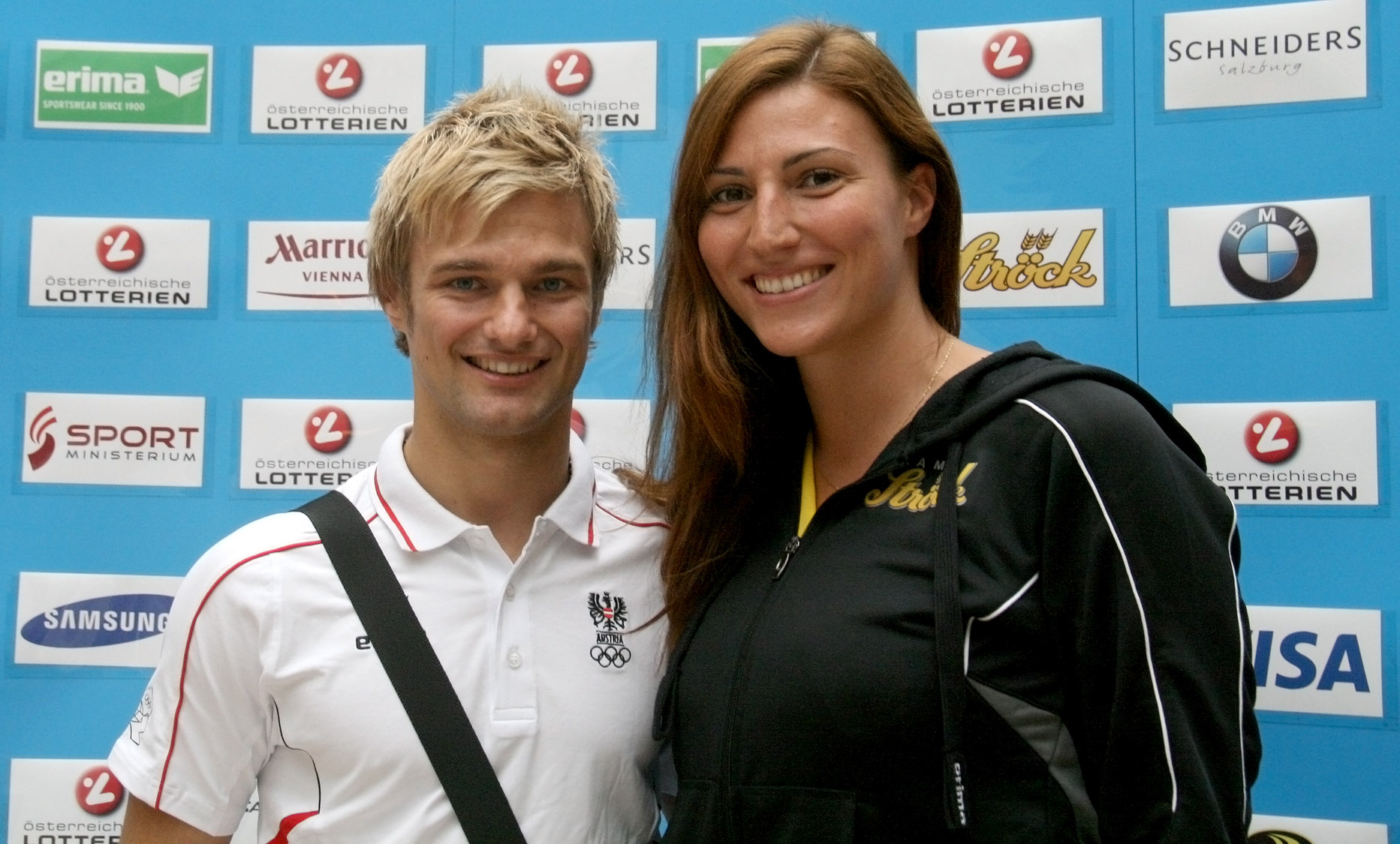 Judoka Ludwig Paischer and former swimmer Mirna Jukic at the hand-out of the Austrian teams official attire for the 2012 Summer Olympics in London (Marriott, Vienna).